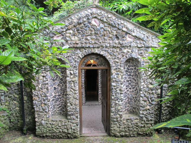 Scott's Grotto, Scott's Road, SG12 - porch